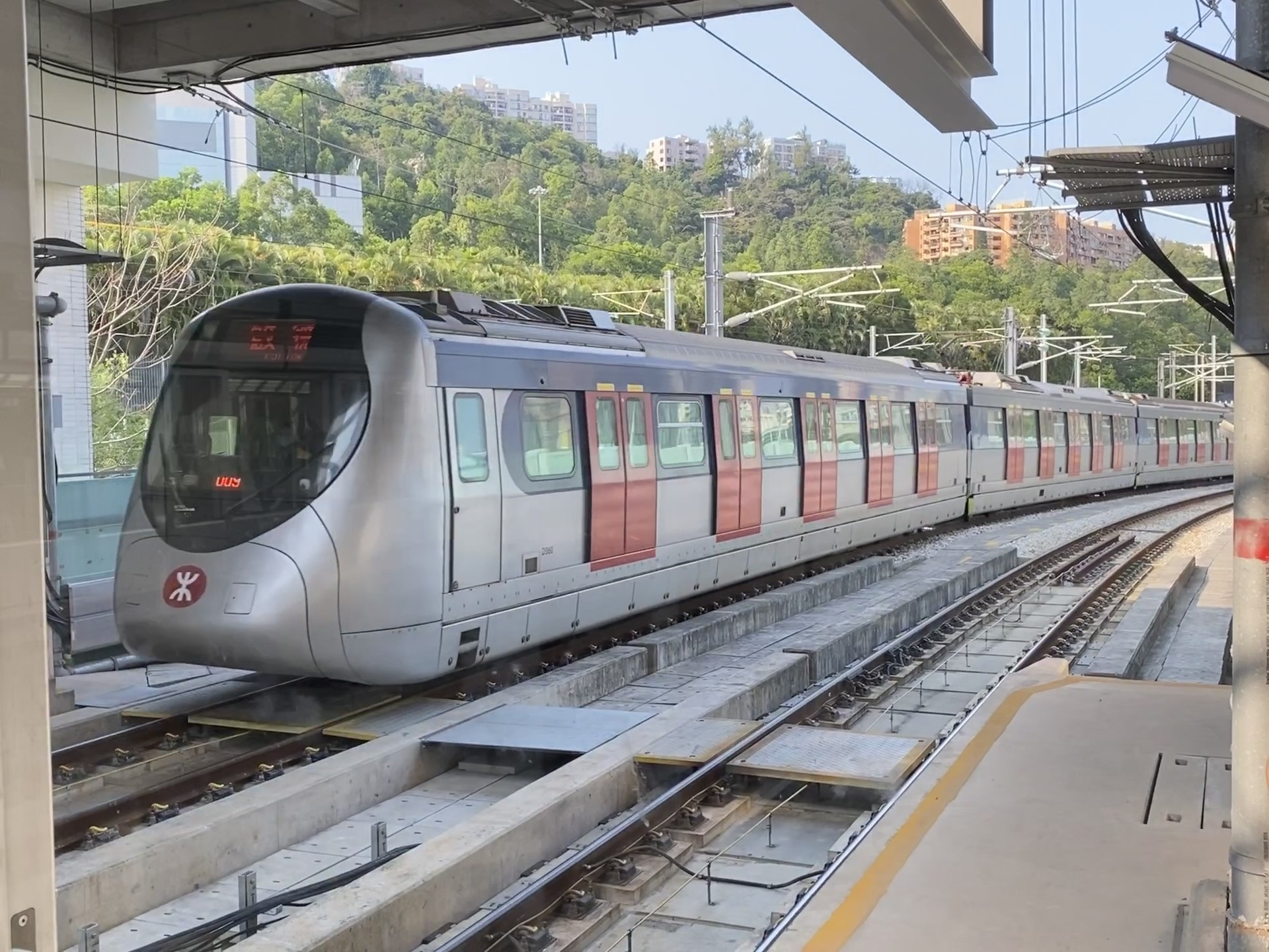 中文（香港）: This photo is taken in Hin Keng.